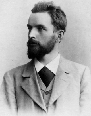 Summary Description The German Economist Silvio Gesell Date1895Source The German Economist Silvio Gesell